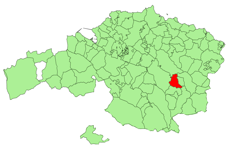 Iurreta municipality in the province of Biscay